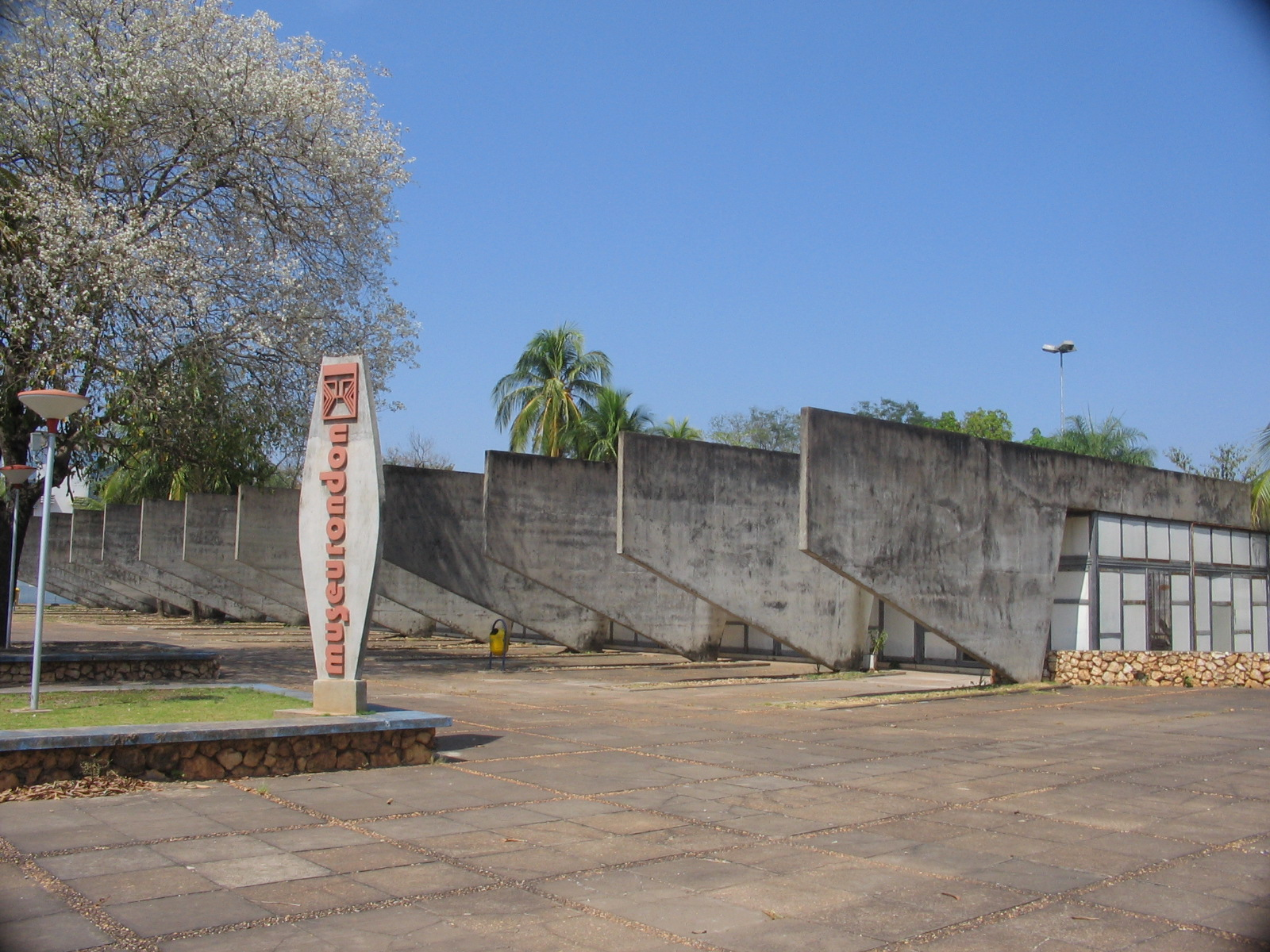 Museu Rondon, a museum of the Federal University of Mato Grosso, in Cuiabá.